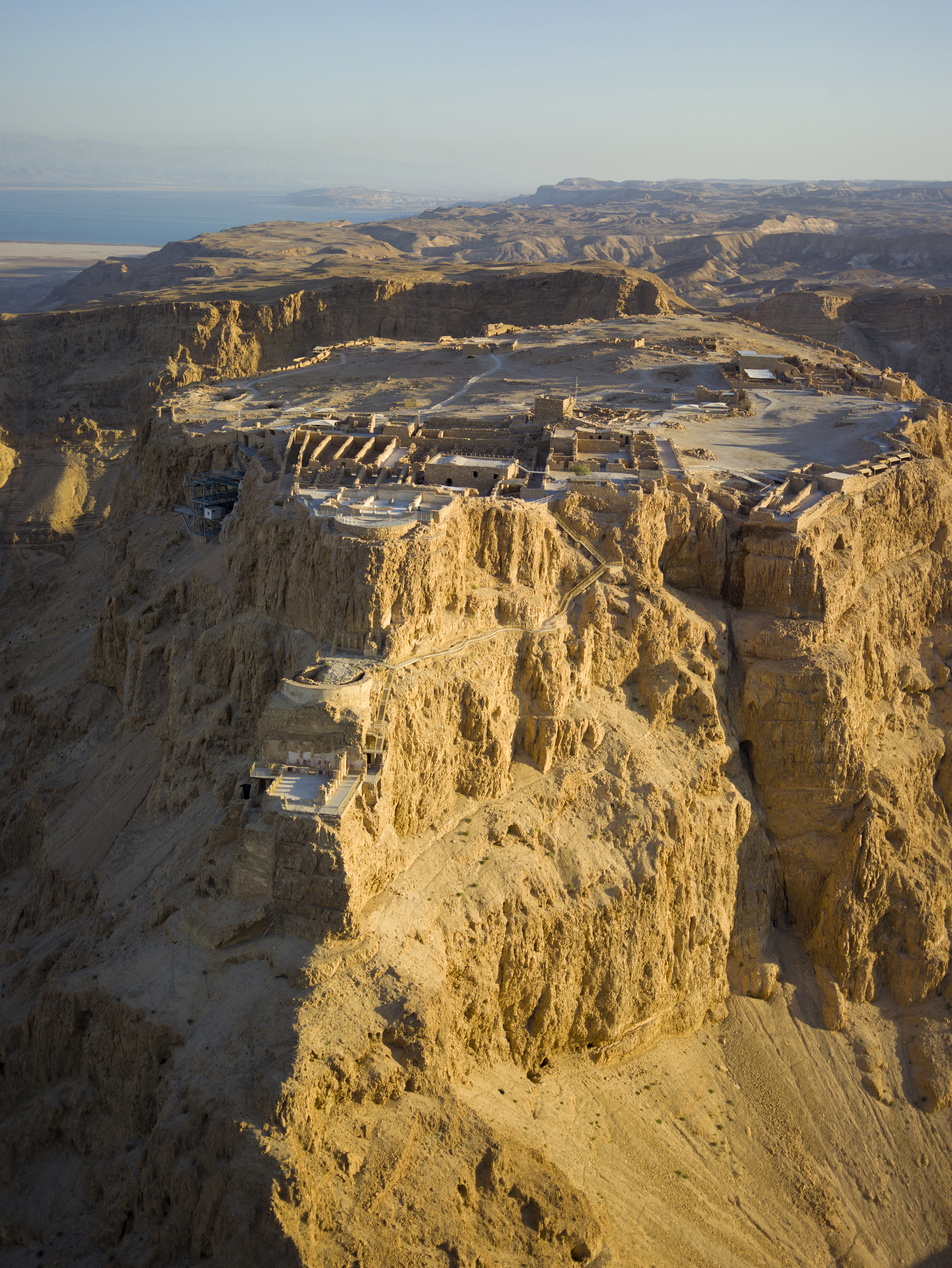 Aerial view of Masada (Hebrew מצדה), in the Judaean Desert (Hebrew: מִדְבַּר יְהוּדָה, Arabic: صحراء يهودا), with the Dead Sea in the distance.